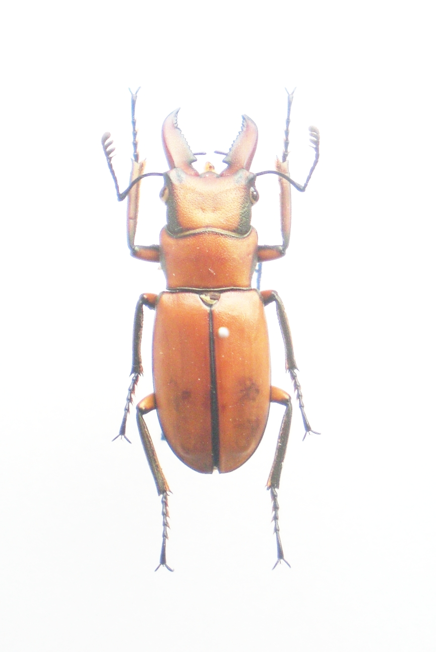 alagari